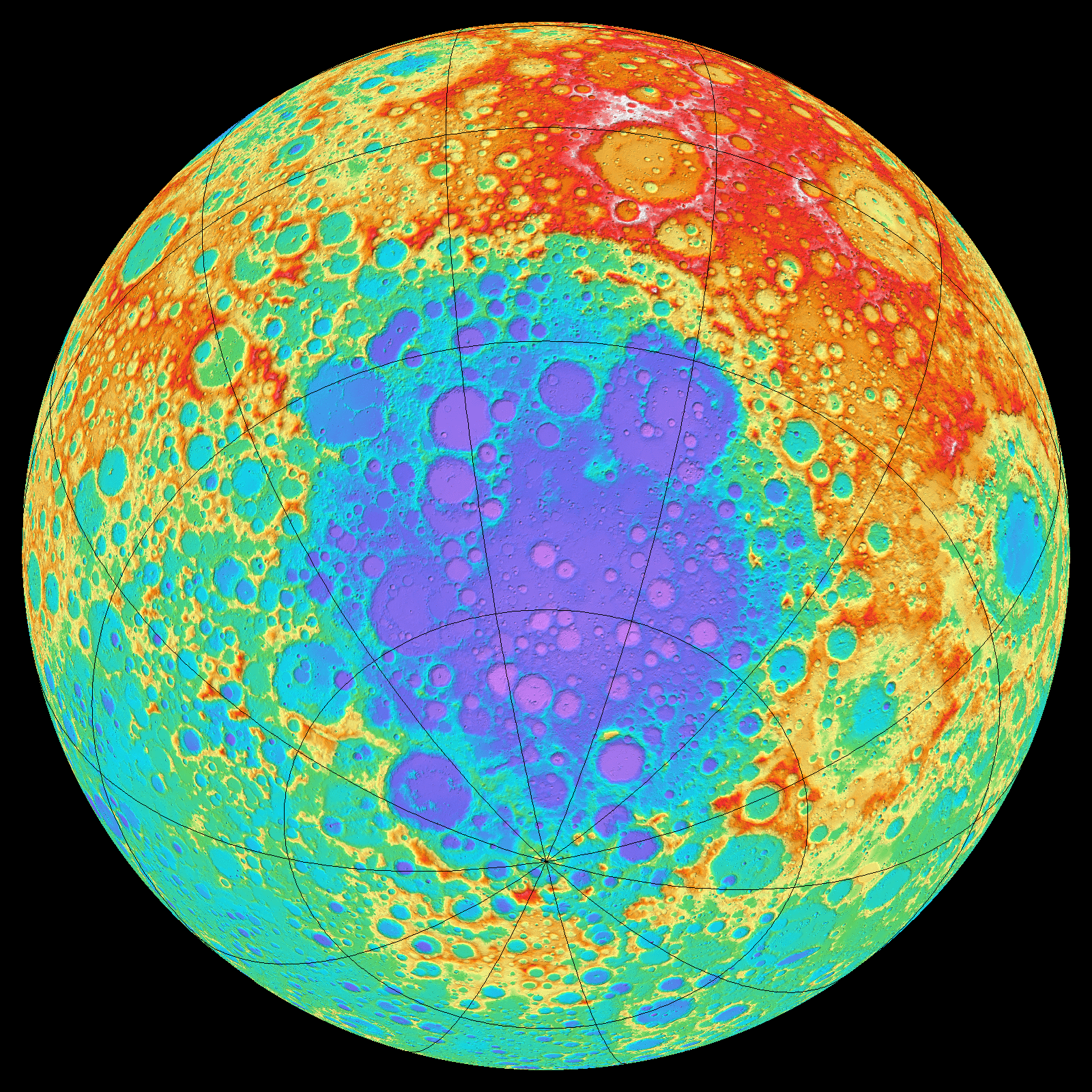 Topographic map of the Moon (color shaded relief), centered at the center of South Pole–Aitken basin (53° S, 169° W). The map is based on Global Lunar DTM 100 m topographic model (GLD100), which is based on data acquired by Lunar Reconnaissance Orbiter. Step of latitude and longitude grid is 30°.